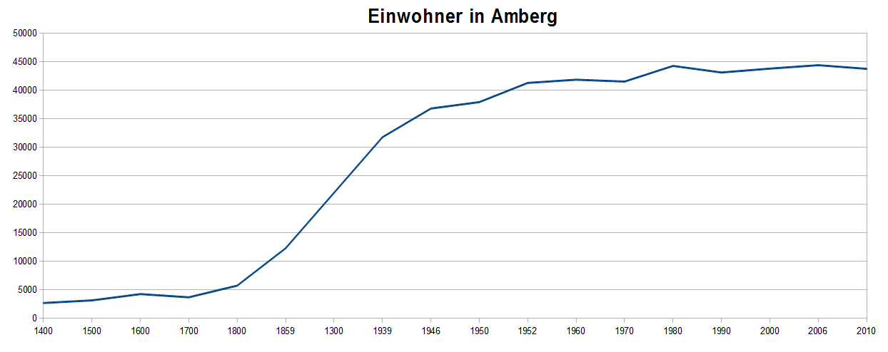 Population in Amberg (1400-2010)